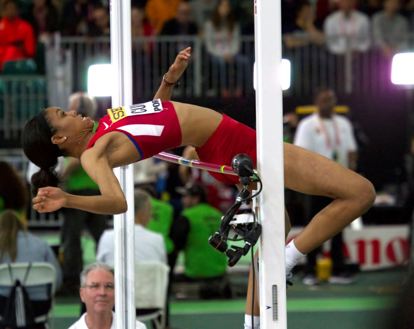 5178 cunningham